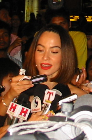 Marsha at Star Entertainment Awards 2007